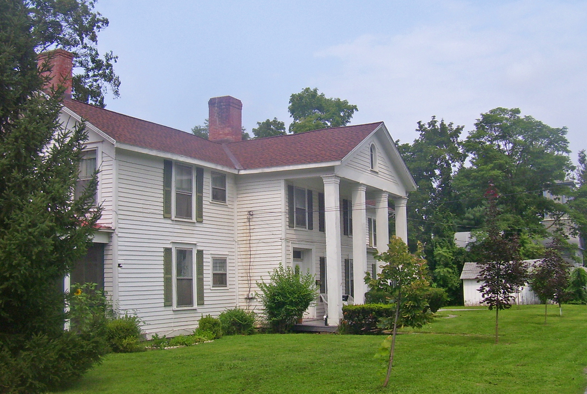 Houses on Park Place, Hyde Park, NY, USA, part of the Main Street-Albertson Street-Park Place Historic District